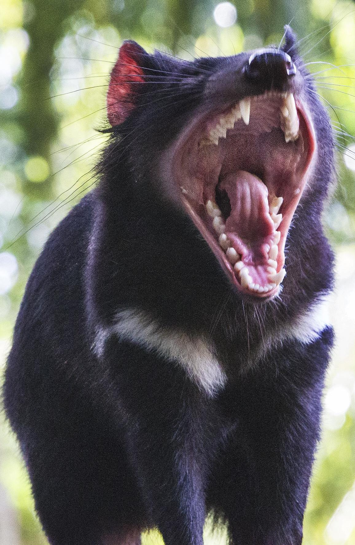 Tasmanian Devil at Australia Zoo